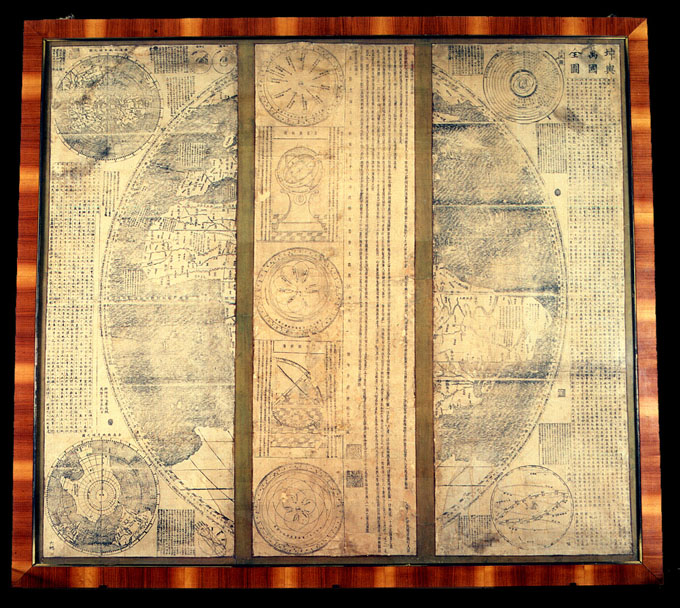 Impossible_Black_Tulip- World_map, panels 1 and 6 (left & right) of the 1602 Ricci map at Museo della Specola, Bologna